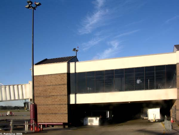 Lafayette Regional Airport main terminal from the tarmac